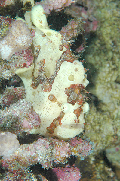 Commerson's Frogfish, Kona, Hawaii. Image taken by Clark Anderson/Aquaimages.